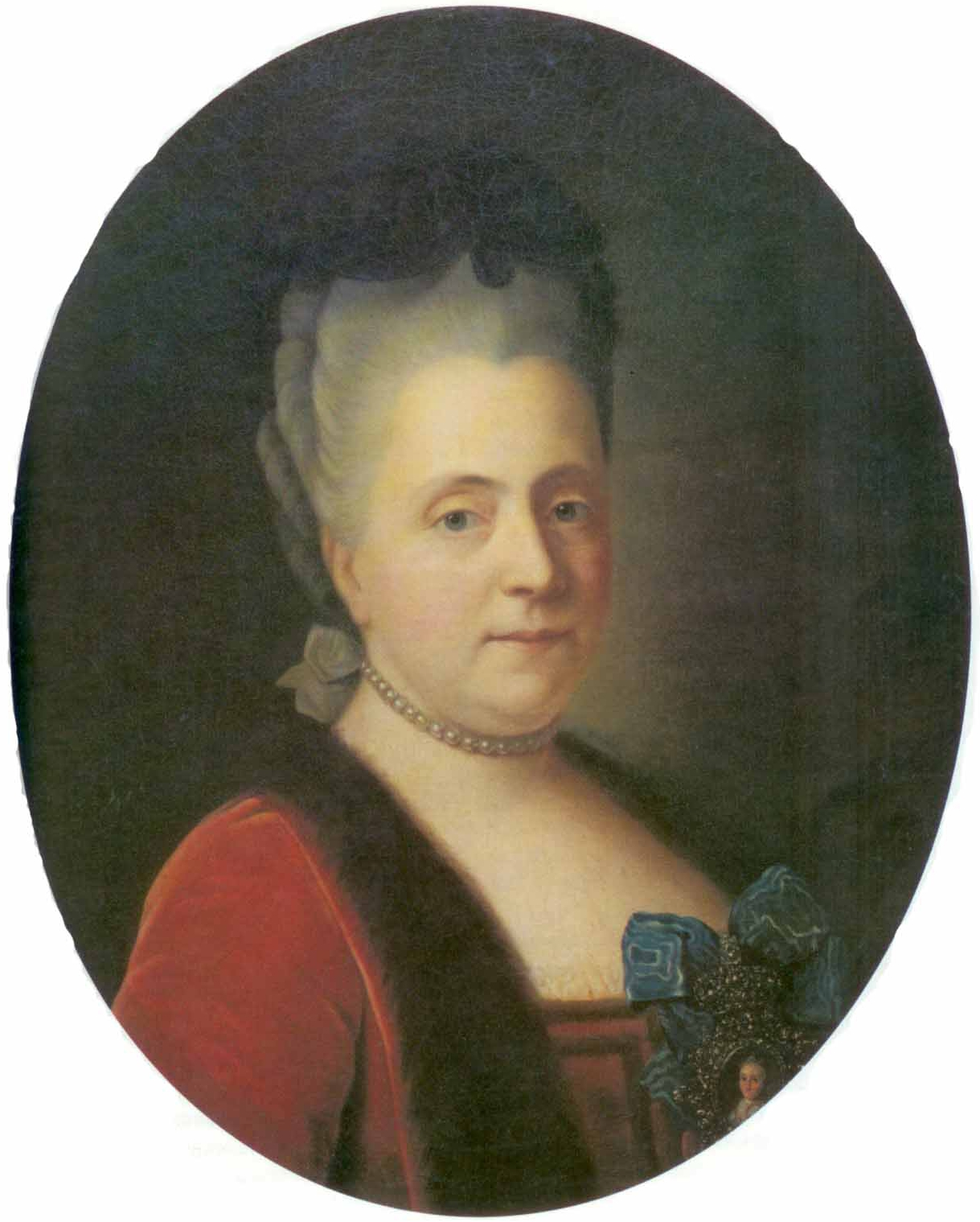 Portrait of Daria Golitsyna